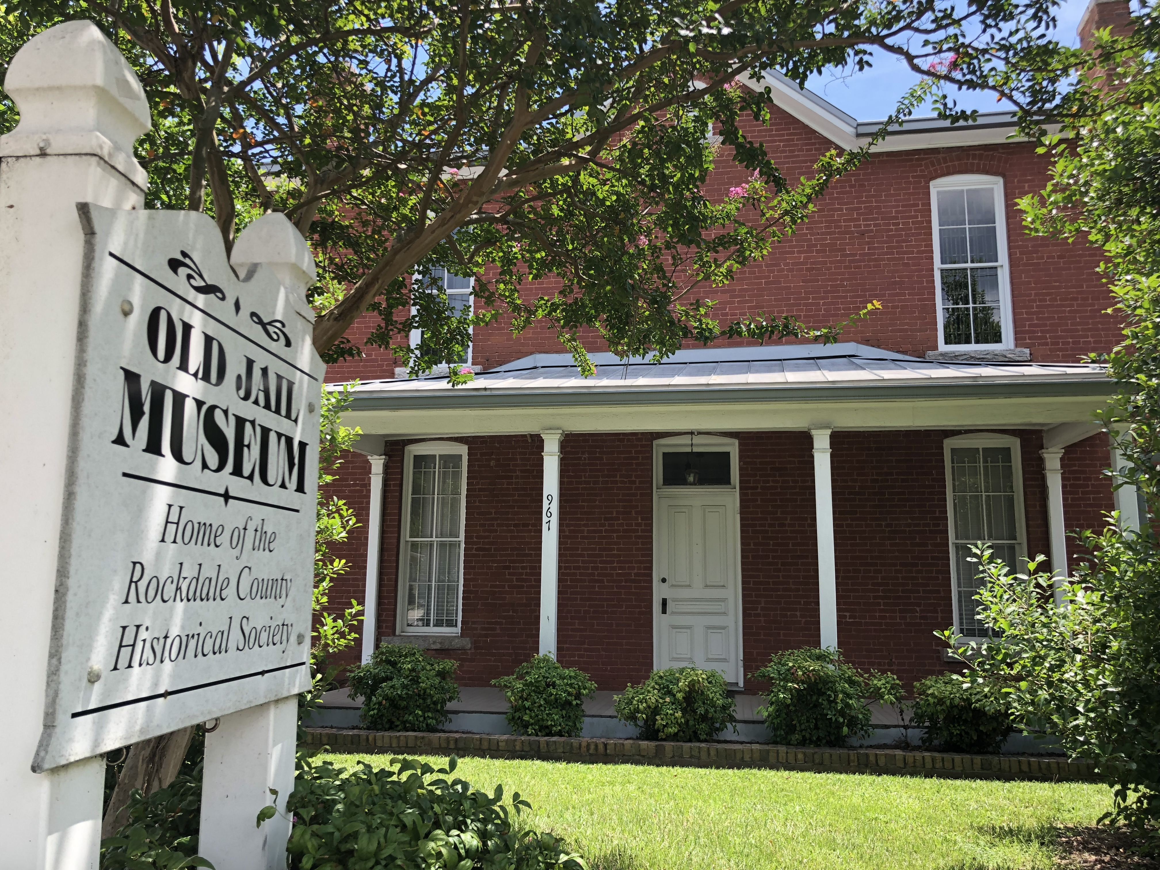 The front entrance of Rockdale County Jail, an NRHP-listed building in Conyers, Georgia